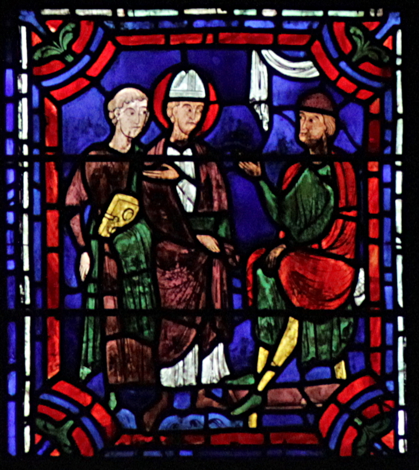 Fragment of File:Chartres 36 -Corrected.jpg - Life of St Apollinaris